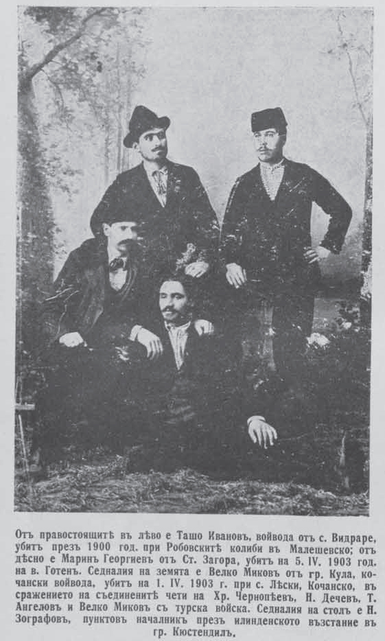 Todor Ivanov and fellows